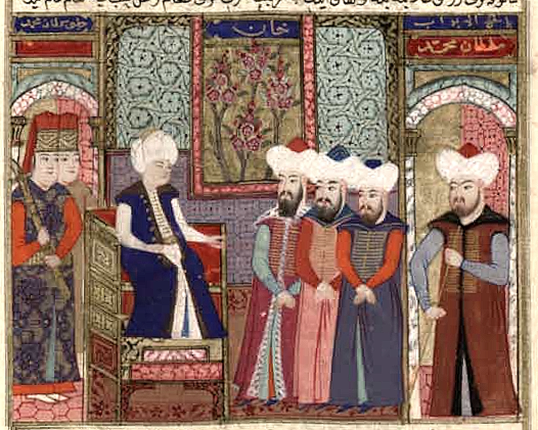 Sultan Mehmed I with his dignitaries. Ottoman miniature painting, kept at Istanbul Üniversitesi Rektörlügü, Istanbul (Inv. T 5970, fol 264v)